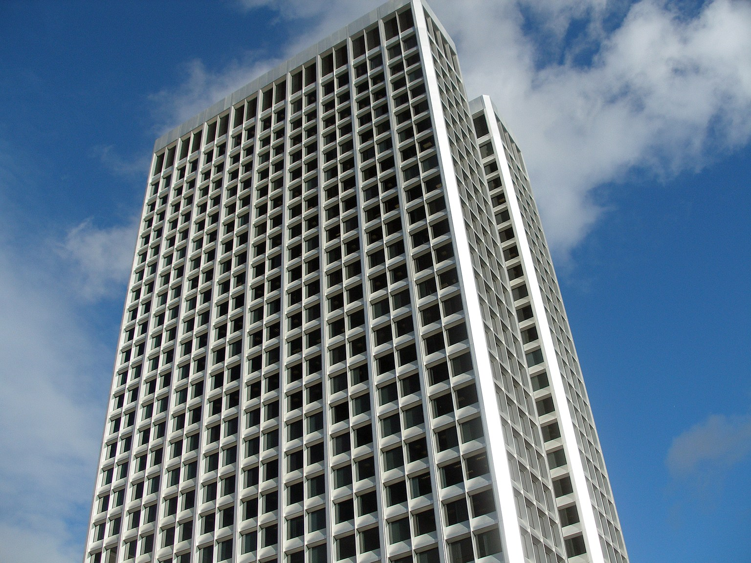 The Ordway Building, One Kaiser Plaza, Oakland. This building is the headquarters of Kaiser Permanente. Photographed by user Coolcaesar.